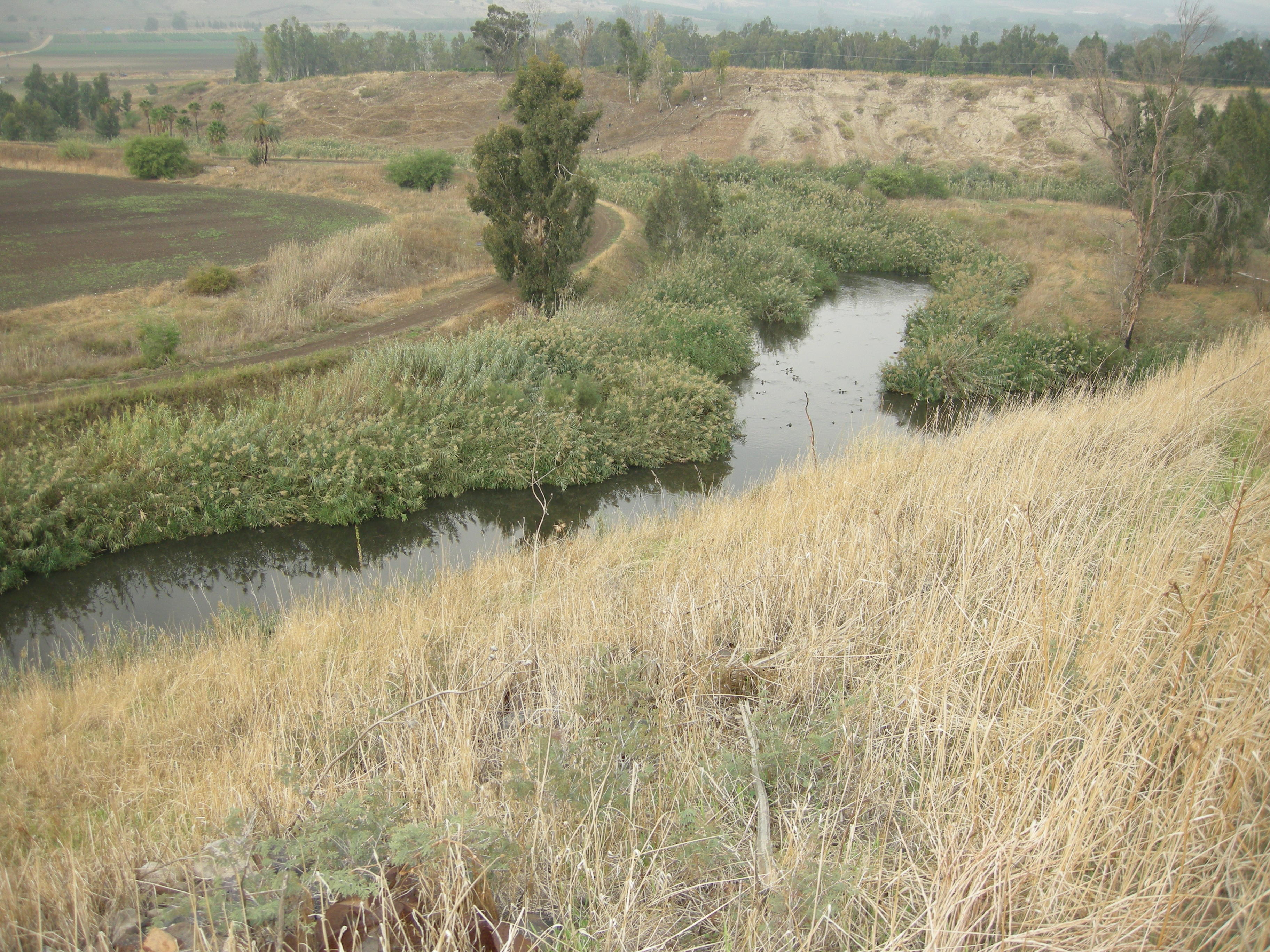 Degania Alef